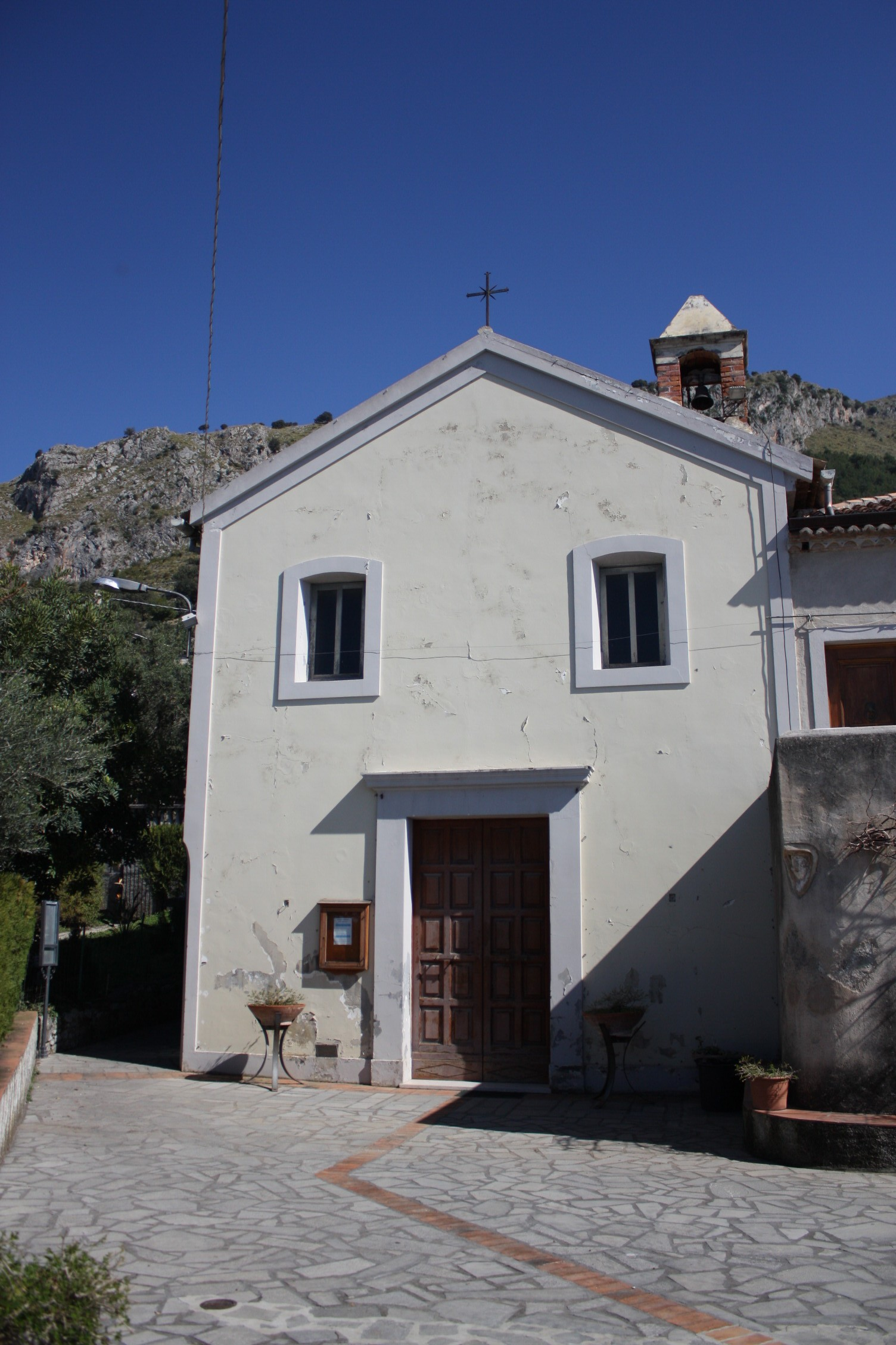 church of Cersuta